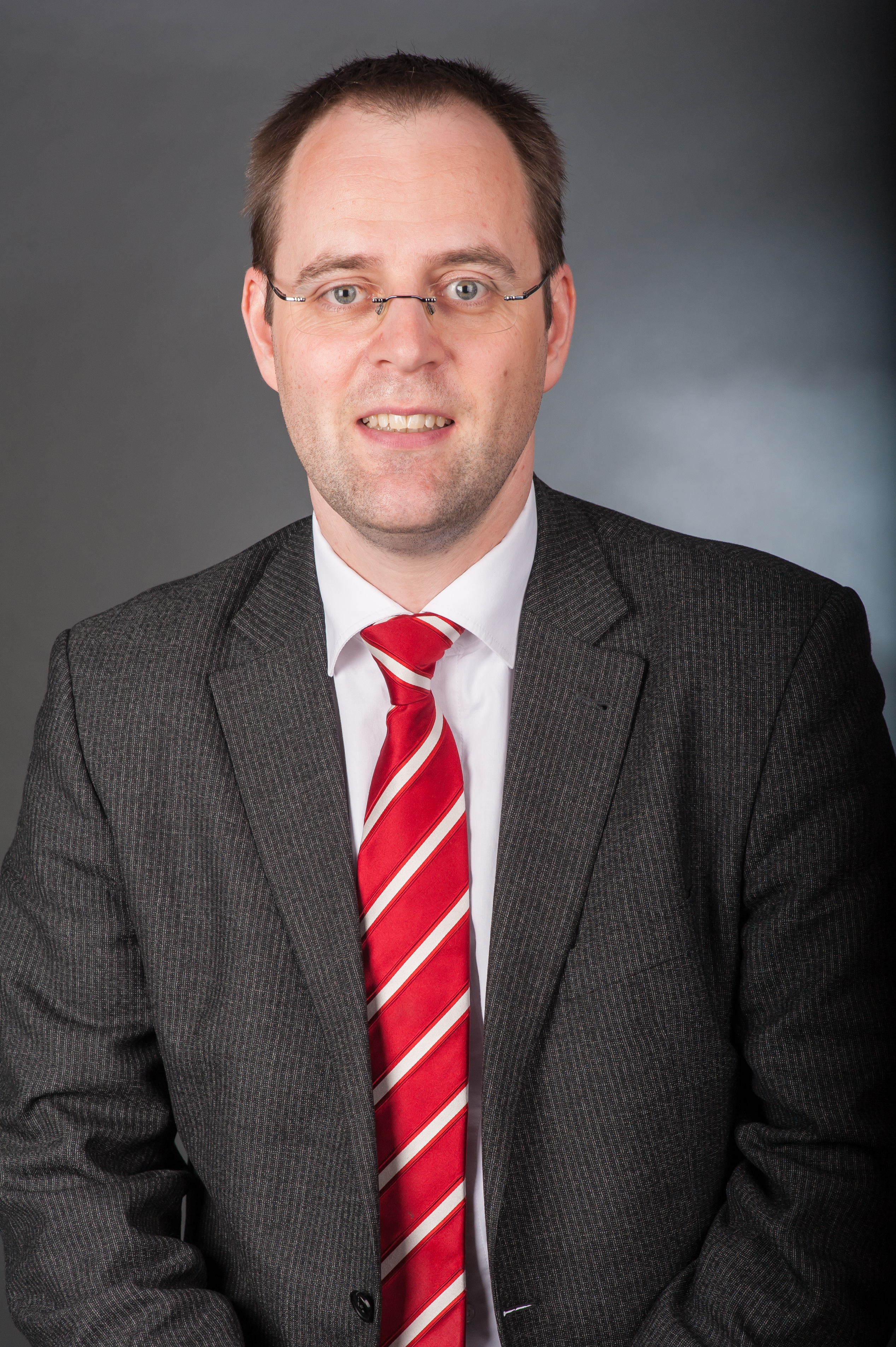 Wikipedia im Landtag – Niedersachsen 17. bis 18. April 2013 in Hannover Personality rights warningAlthough this work is freely licensed or in the public domain, the person(s) shown may have rights that legally restrict certain re-uses unless those depicted consent to such uses. In these cases, a model release or other evidence of consent could protect you from infringement claims.